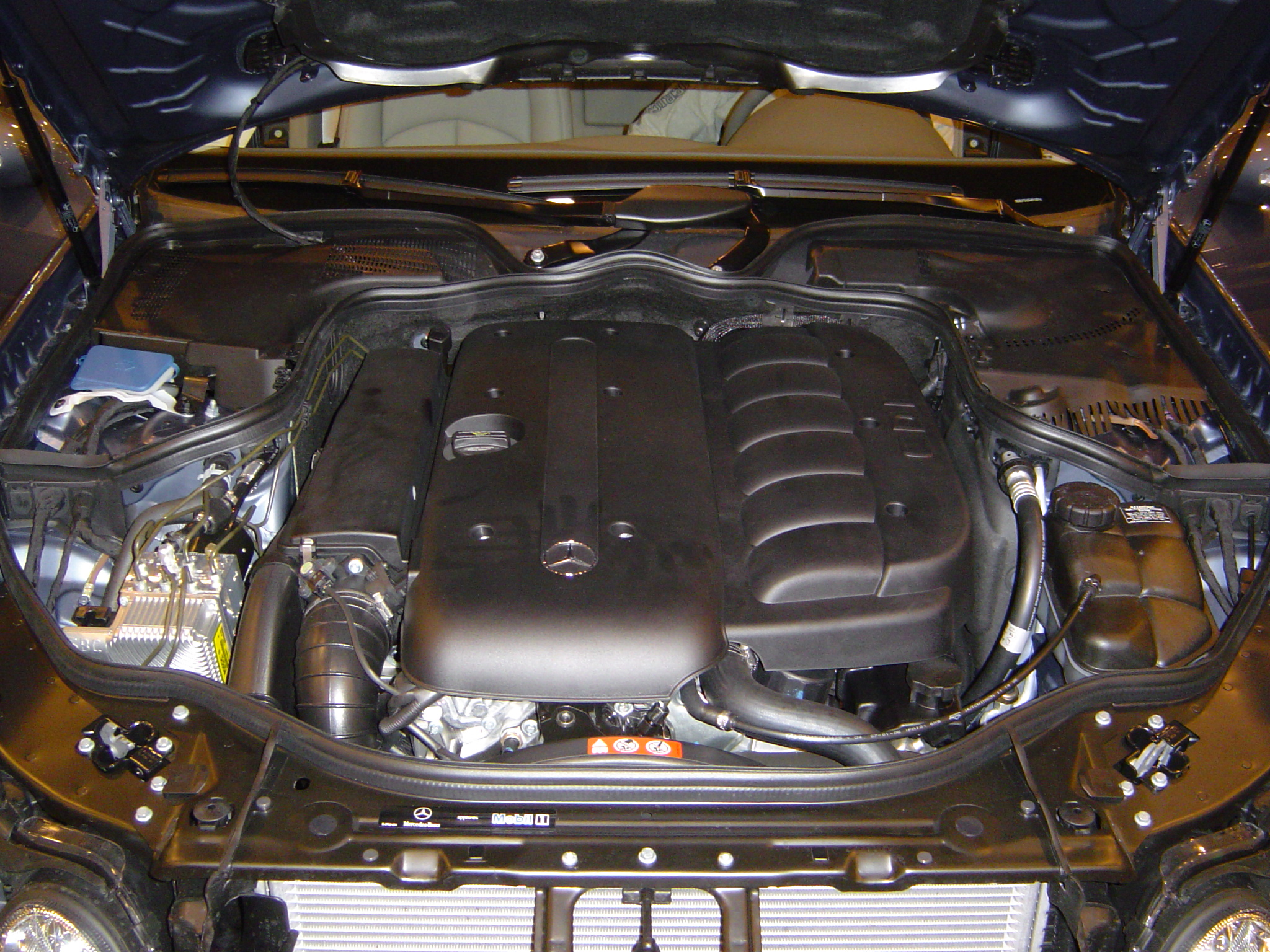 Mercedes-Benz OM 613 DE 32 LA engine in an E-Class